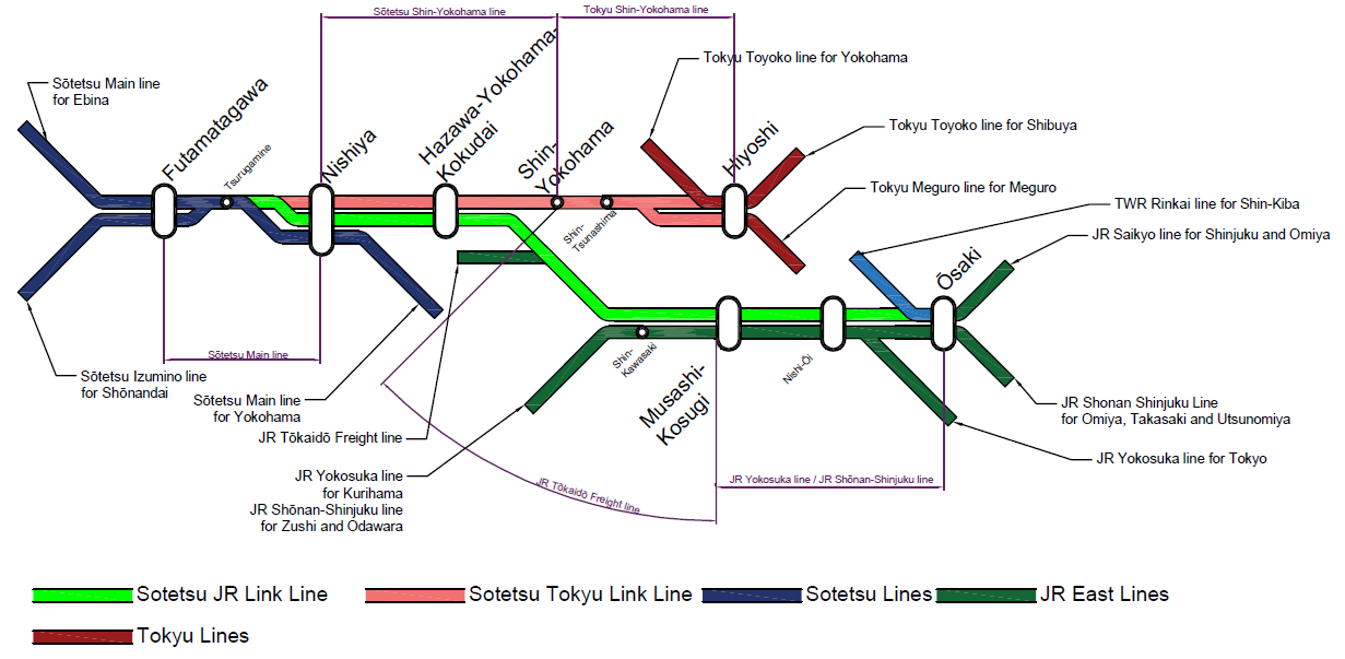 Schematic representation of the services that will operate on the line